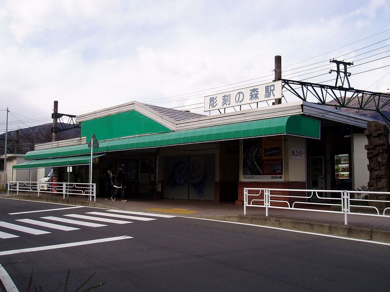 Chokoku-no-Mori Station on the Hakone Tozan Railway Line